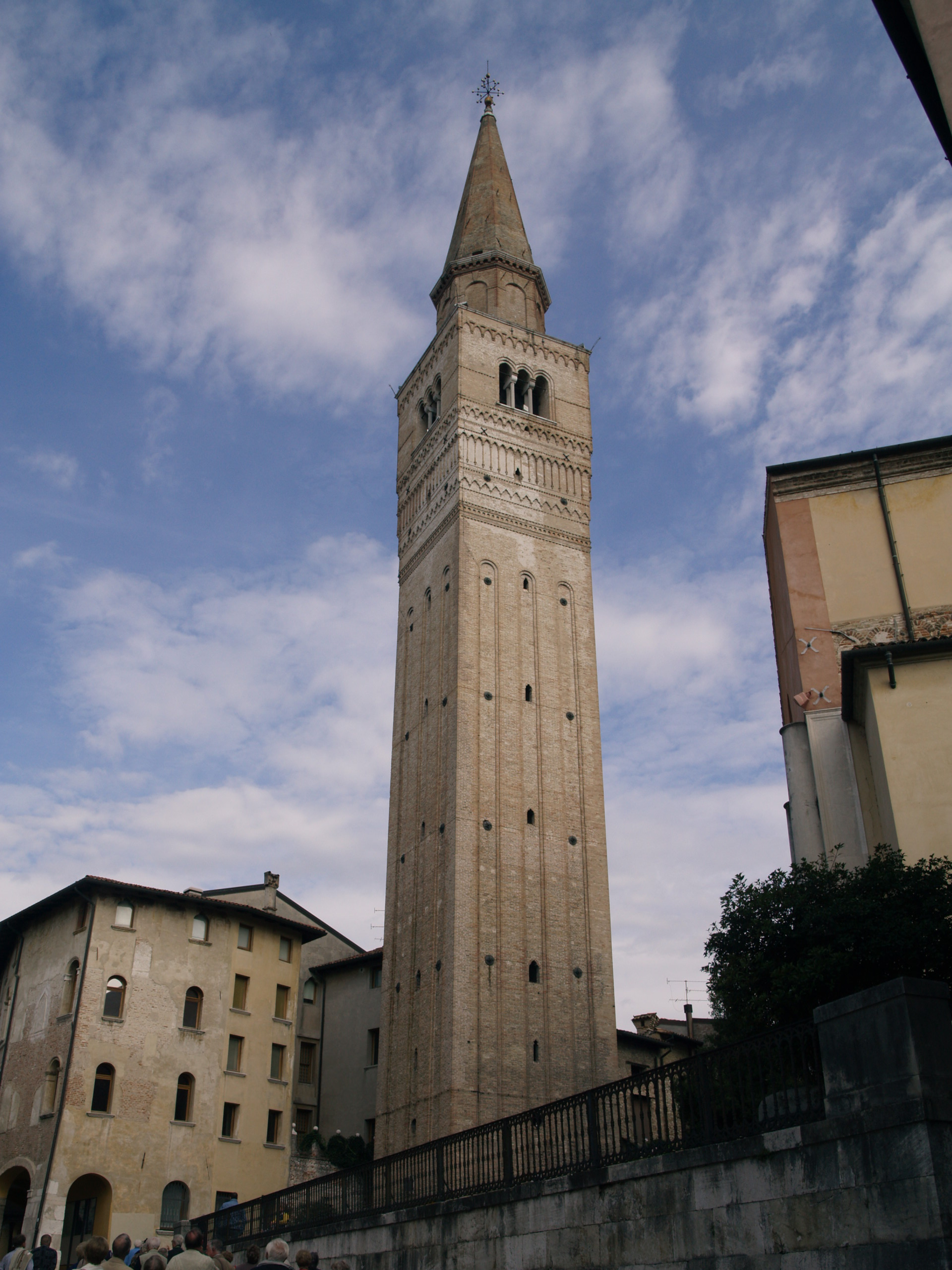 Campanile of the cathedral San Marco in Pordenone (Friuli-Venezia Giulia)